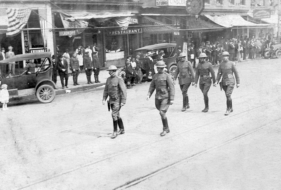 View of the Field and Staff of the 119th Infantry Regiment, 60th Brigade, 30th Division, marching at the head of the column of the formation during the 119th Infantry parade through downtown Columbia, South Carolina, upon their return from France in April 1919. Pictured are (left to right, marching): Colonel John Van Bokkelen Metts; Lt. Col. Thomas N. Gimperling; Maj. Roane Waring (of Tennessee); Capt. Jere Cooper, Adjutant (of Tennessee); and unidentified officer (April 1919). From the John Van Bokkelen Metts Papers, WWI 62, WWI Papers, Military Collection, State Archives of North Carolina, Raleigh, N.C.